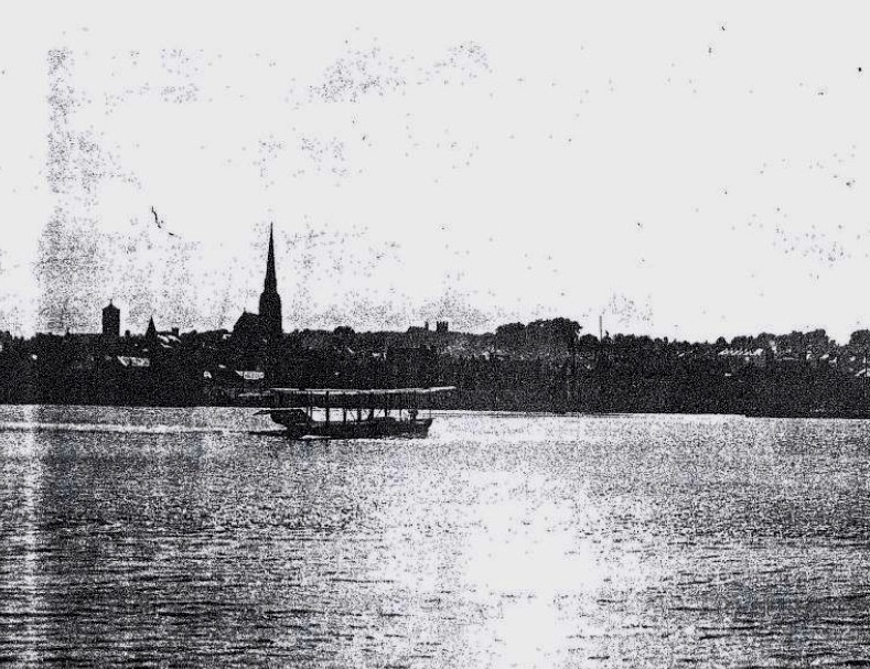 Curtiss Model H flying boat in Wexford harbour